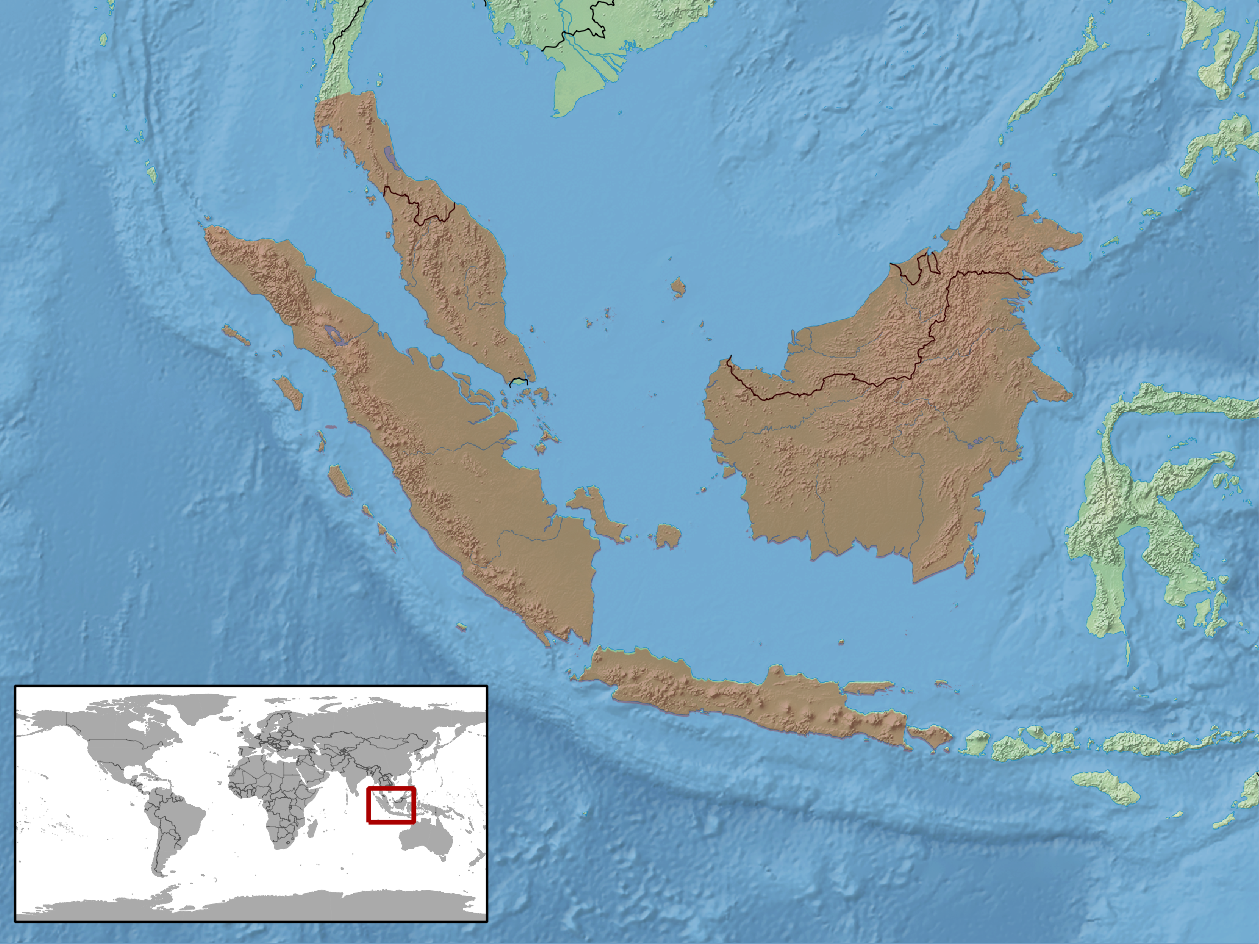 geographic distribution of Dryophiops rubescens (Native: Brunei Darussalam; Indonesia (Jawa, Kalimantan, Sumatera); Malaysia (Sabah, Sarawak); Philippines; Singapore; Thailand)